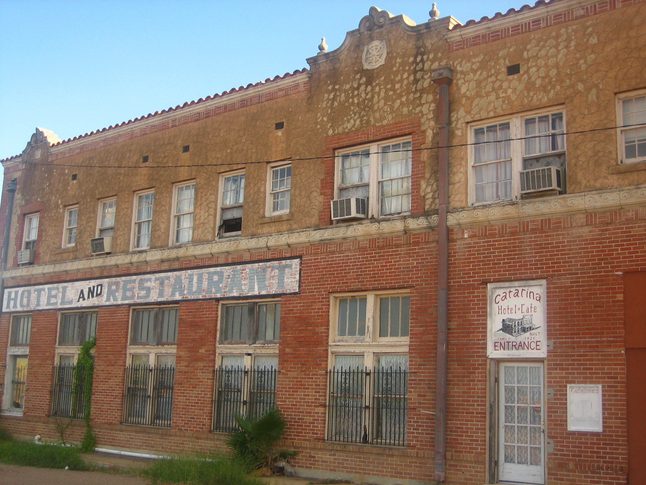 I took photo on Nov. 2, 2008.Billy Hathorn (talk) 01:31, 3 November 2008 (UTC)